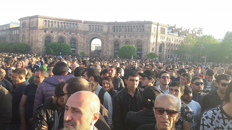 Protest in Rebublic Square, Yerevan